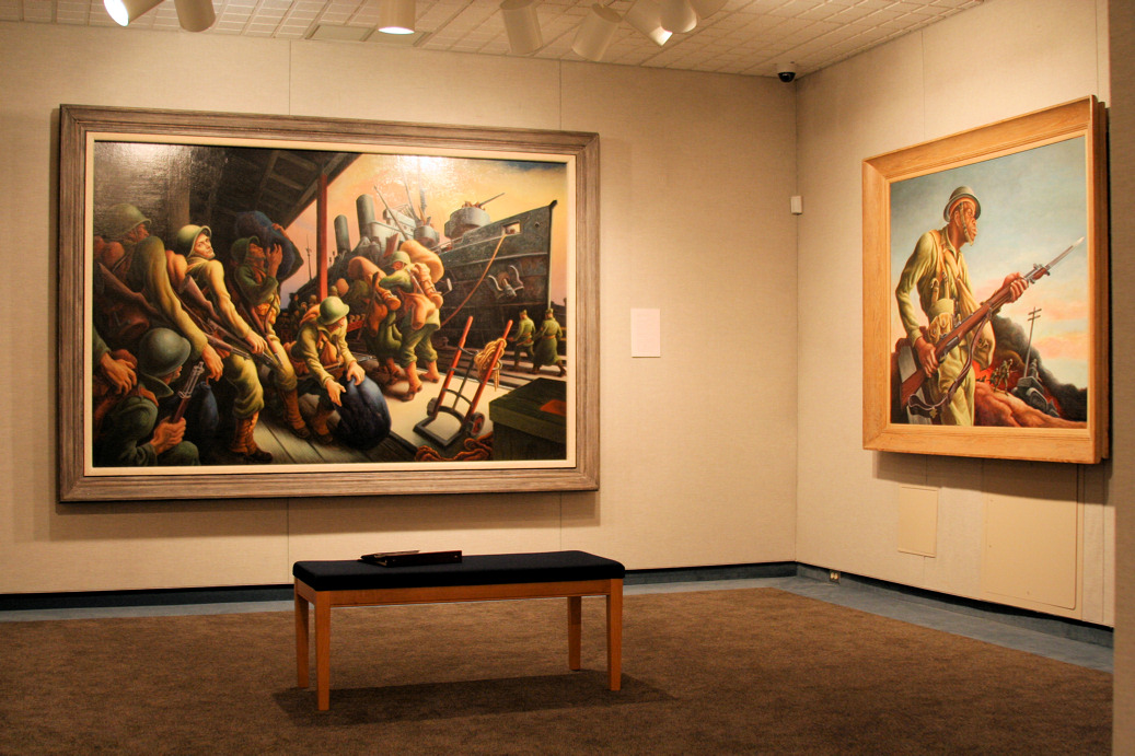 A picture of the art gallery at the State Historical Society of Missouri